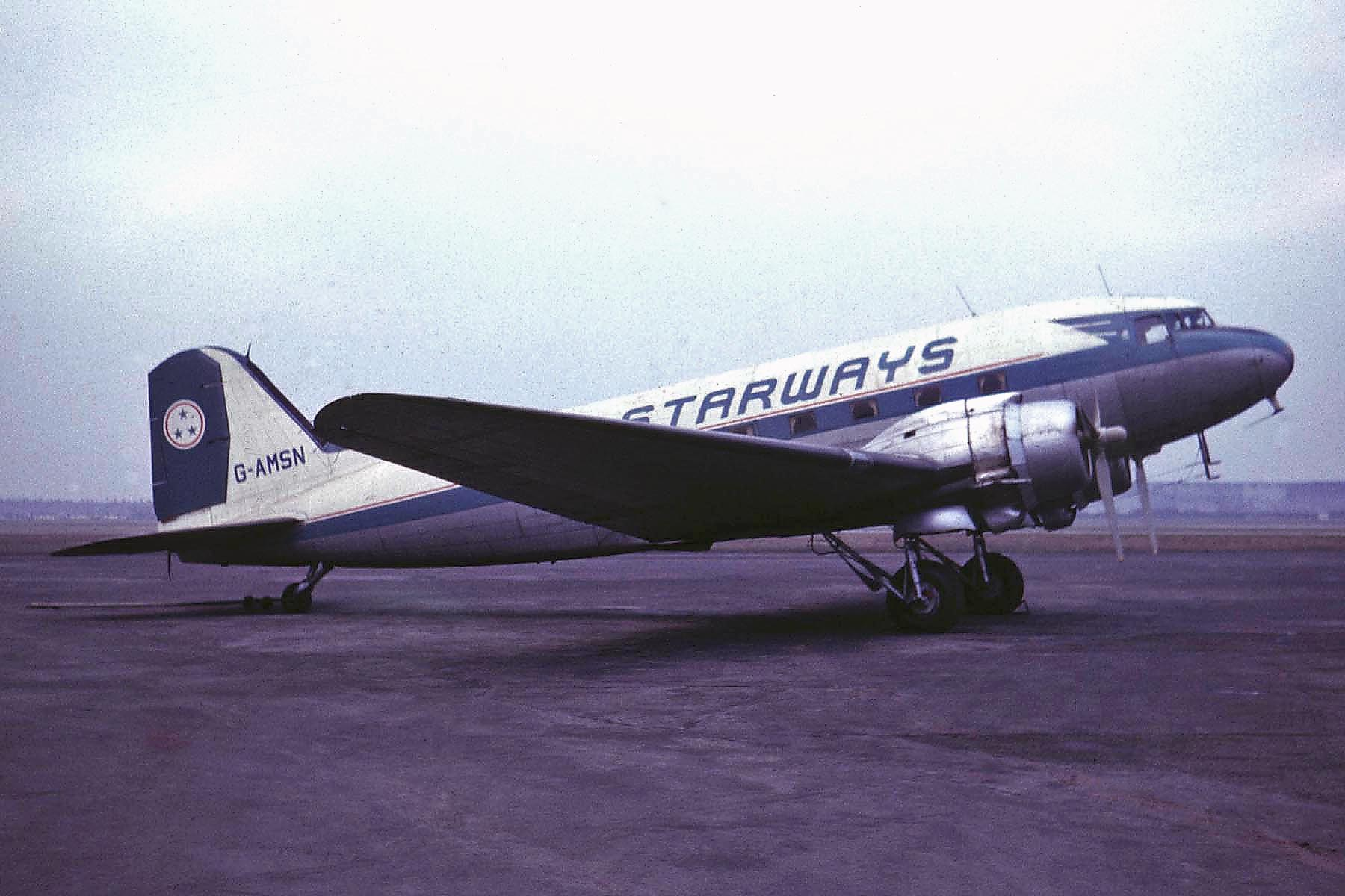 "G-AMSN 1 Douglas C-47B Dakota 4 Starways of Liverpool LPL 12JAN64 Starways of Liverpool was taken over by British Eagle (Liverpool) Ltd., on the 1st January, 1964. The aircraft were not included in the deal and reverted to Aviation Overhauls Ltd."